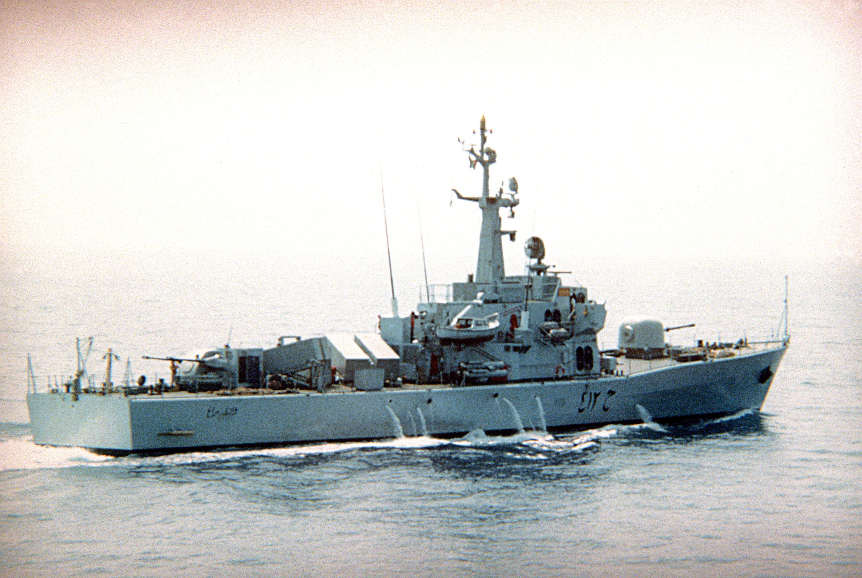 A starboard quarter view of the Libyan "Assad" class missile corvette "Assad Al Tadjier" underway. The ship is fitted with four Otomat anti-shipping missiles, one 76mm OTO Melara cannon and a twin 35mm Oerlikon/OTO Melara turret aft. Photographer's Name: Unknown Location: UNKNOWN Date Shot: 7/20/1983 Date Posted: unknown VIRIN: DN-ST-83-09894